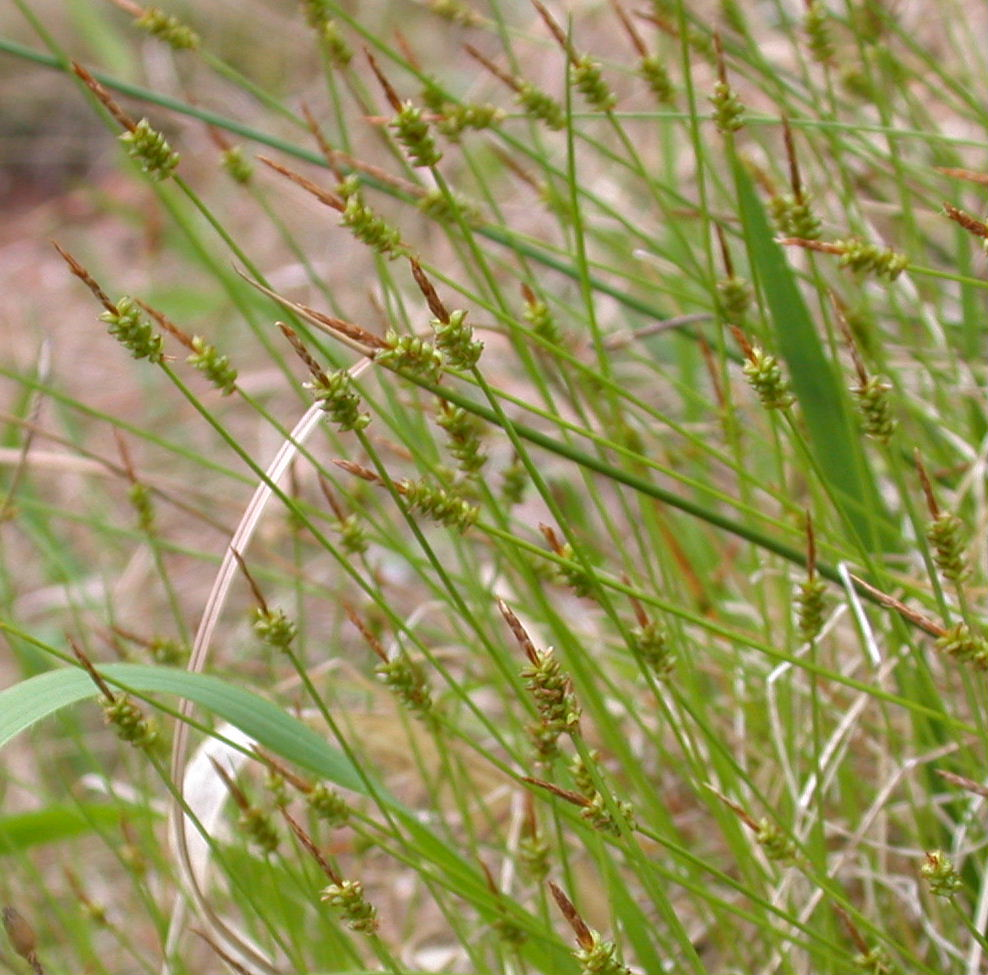 Carex biwensis (Cyperaceae) Japanese name;Matubasuge date:2004.04.19:Ryujin village,Tanabe city,Wakayama pref.Japan Author;Keisotyo